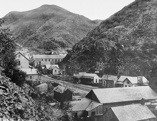 Town of Bingham Canyon, 1914. Commercial photo taken on assignment, published ca. 1914.